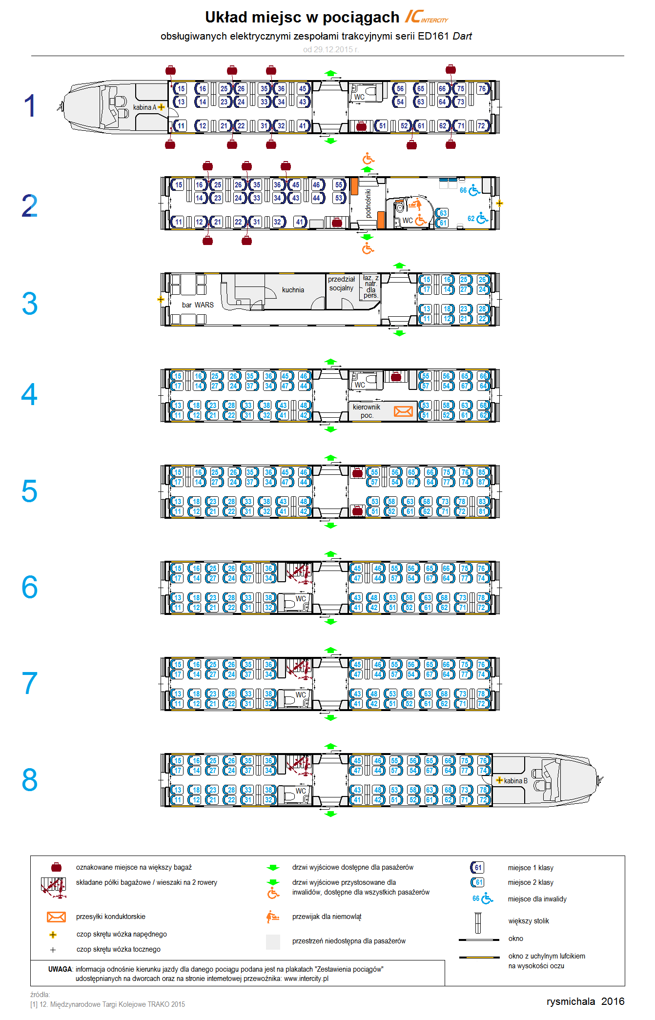 Seating plan of Polish EMU class ED161 (Pesa Dart) used on domestic InterCity services since 29-12-2015.